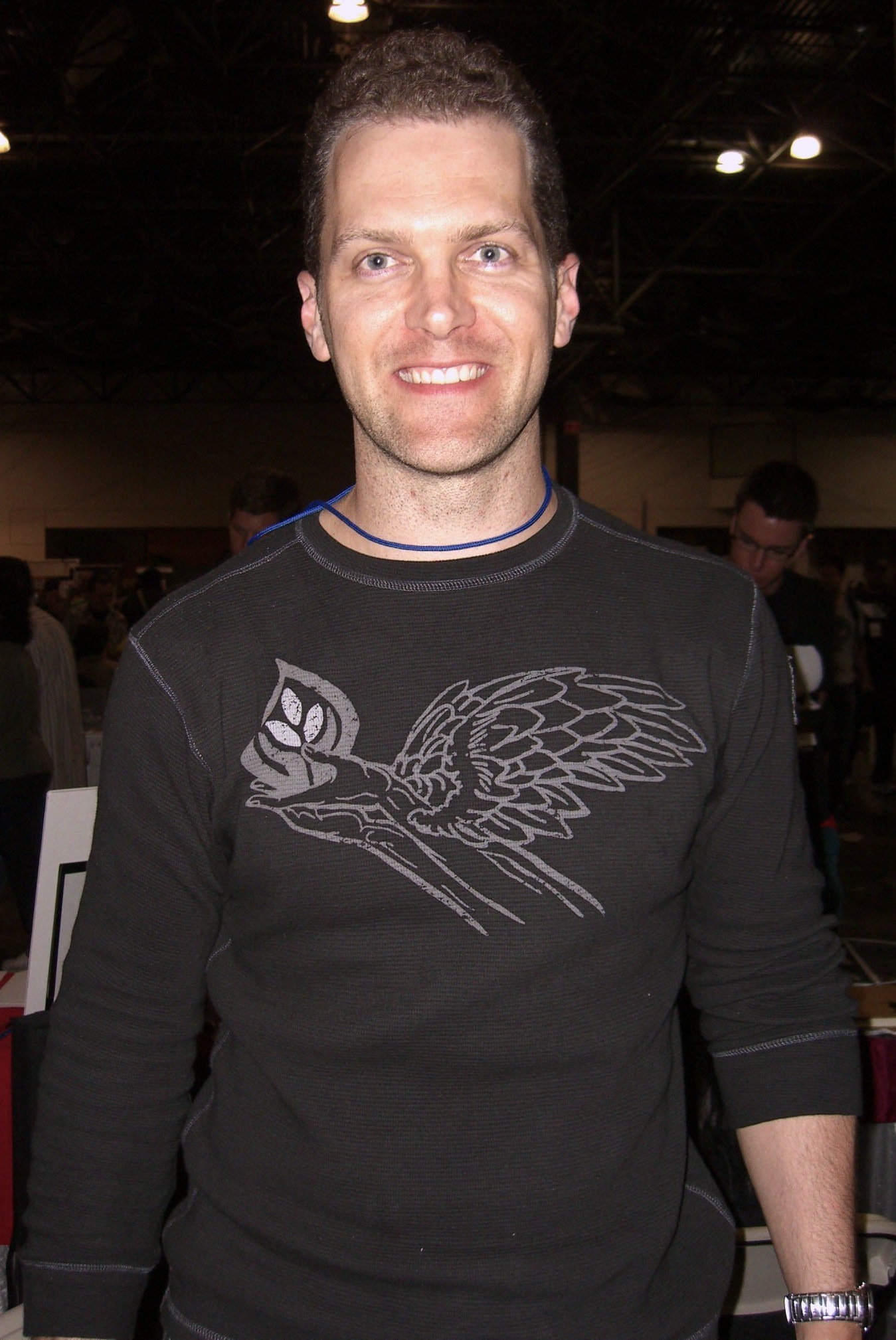 Comic book creator Shane White, at the New York Comic Convention in Manhattan, October 9, 2010. Photo by Luigi Novi. This photo may be used, modified and published for any purpose, only if a easily visible credit to the photographer is placed near the photo in each instance in which it is used. (See licensing information below.) Publication of this photo without this proper attribution constitute copyright infringement. For more information on my photos, you can contact me here.